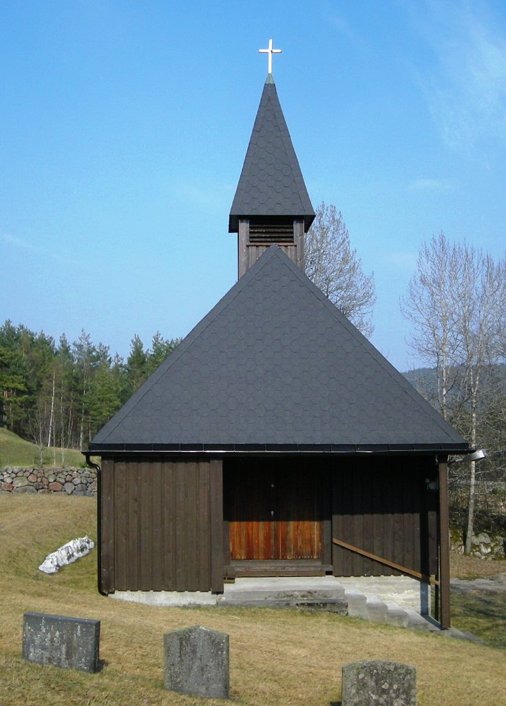 Vegusdal chapel, Birkenes